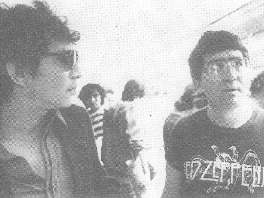 J. X. Návar y Rockdrigo